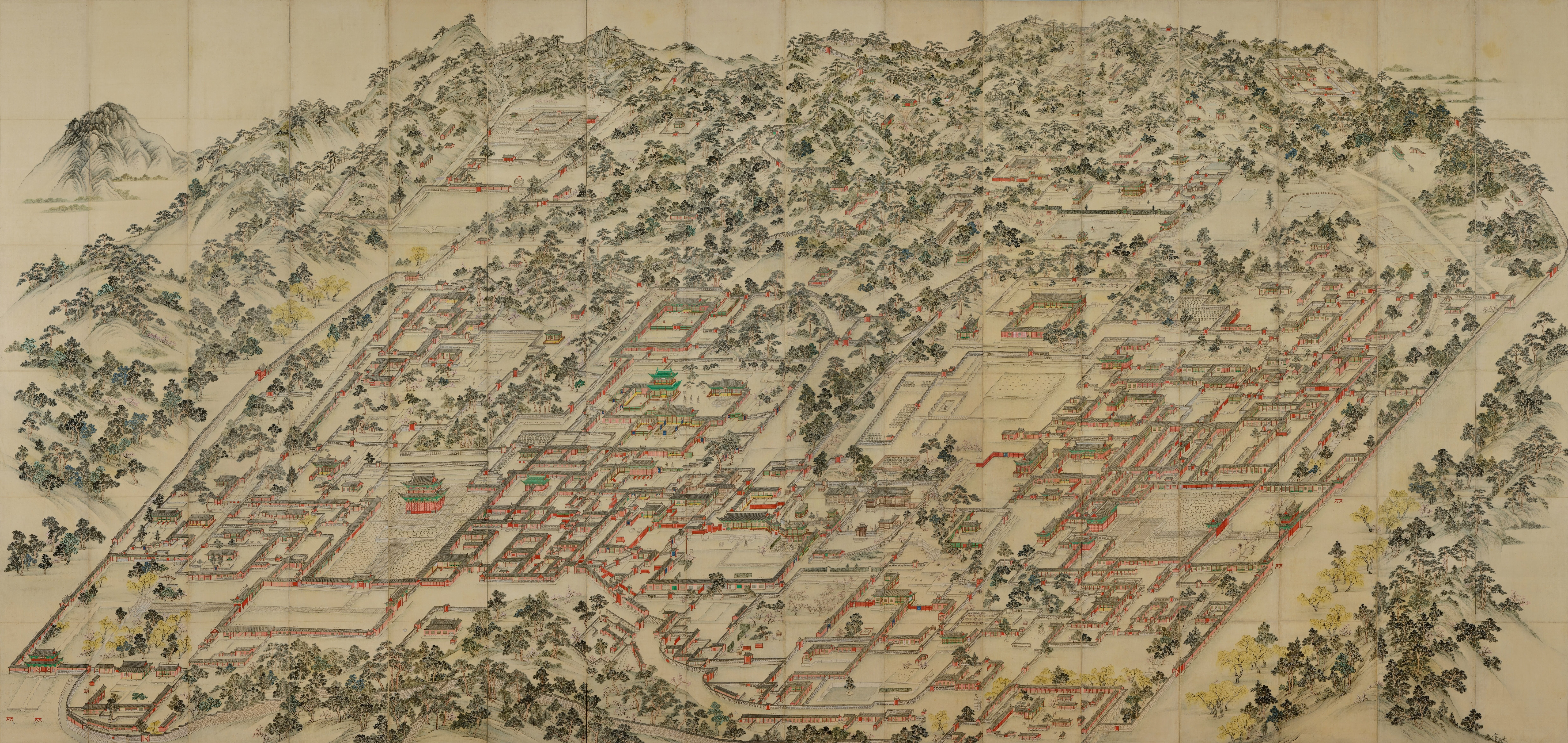 Donggwoldo (literally "Painting of Eastern Palace") is a representative Korean painting depicting the two royal palaces, Changdeokgung and Changgyeonggung located in the east of the main palace, Gyeongbokgung. The painting of the Joseon Dynasty is drawn from a bird´s-eye-view and on silk. Two transcriptions have been handed down; one with a width of 583 cm and a height of 274 cm is stored in Korea University Museum, while the other with a width of 576 cm and a height of 273 is in Dong-A University Museum. This file is Dong-A University's version. This painting is on the movable wall which could also be folded. It's made of paper, silk and wood. Donggwoldo is designated as the 249th National Treasure of South Korea.